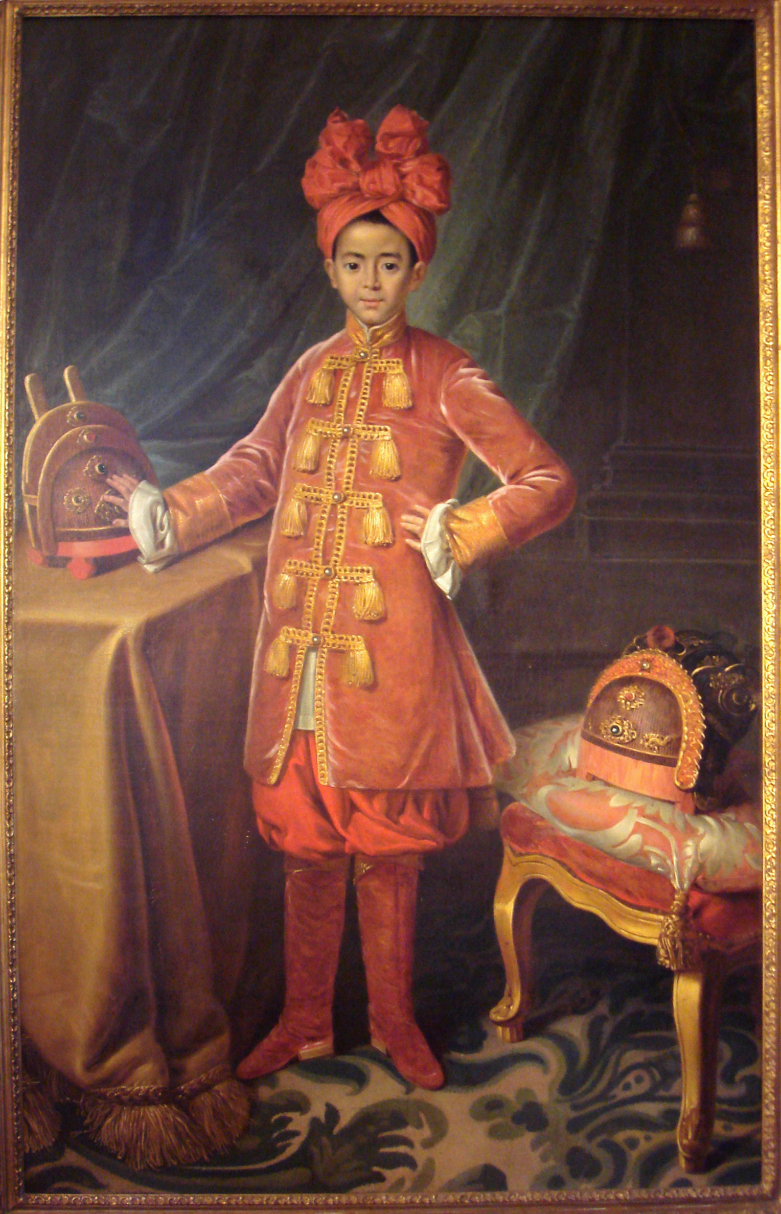 Maupérin portrays the seven-year-old crown prince of Cochinchina (modern Vietnam) in a fanciful costume that conflates a Western silhouette with Eastern influences, including an intricately tied turban that inspired French wig designers, igniting a fashion craze. Rebellion at home had brought the prince to Versailles to seek aid in 1787, and he received an intimate reception; the prince played with the royal children but also met with dignitaries such as Thomas Jefferson. The mandarin’s hats on the table and chair may represent gifts he brought with him.